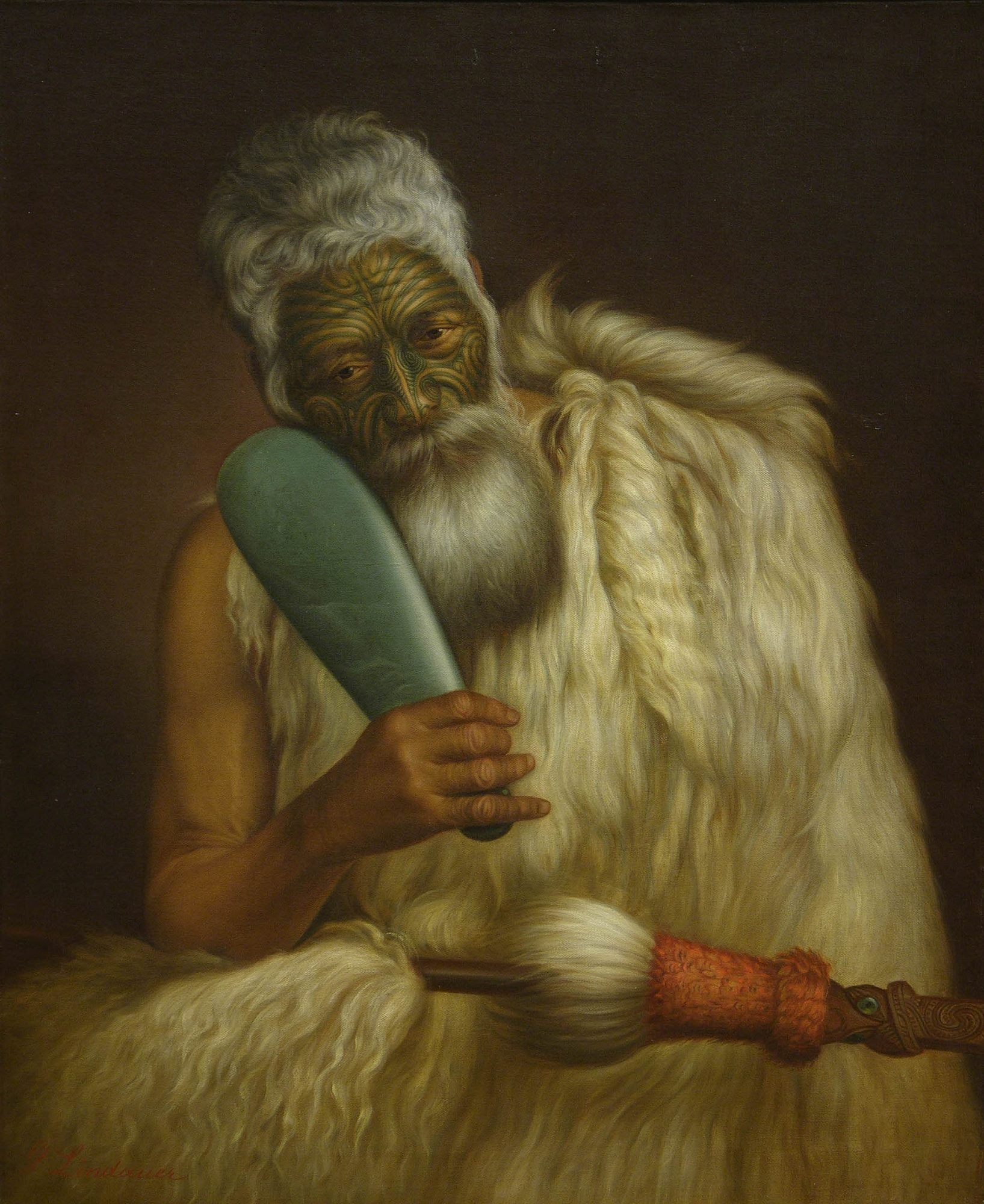 A portrait of Wiremu Kingi, from Turanganui on the New Zealand East Coast